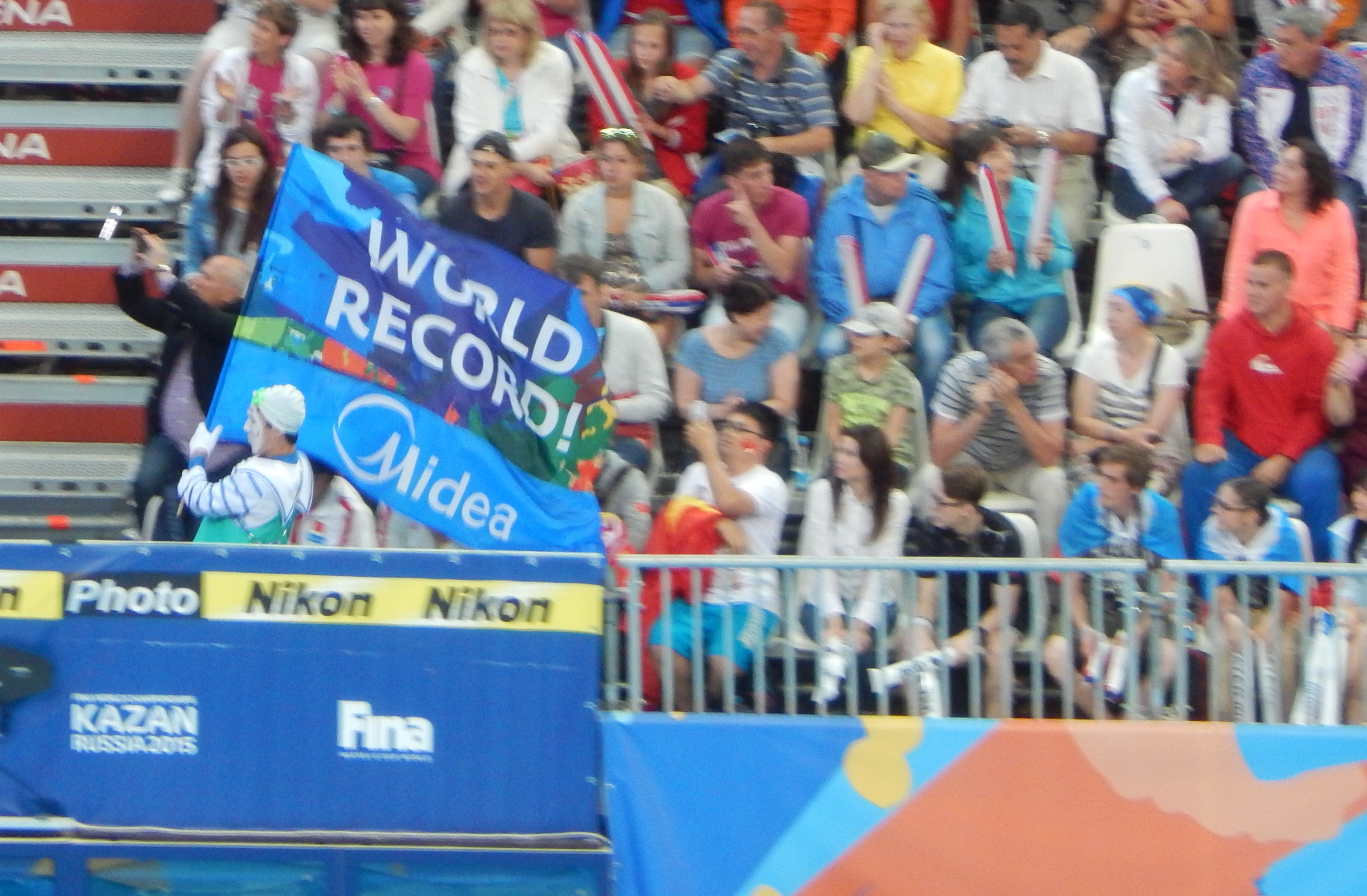 World Record flag and its bearer in Kazan 2015